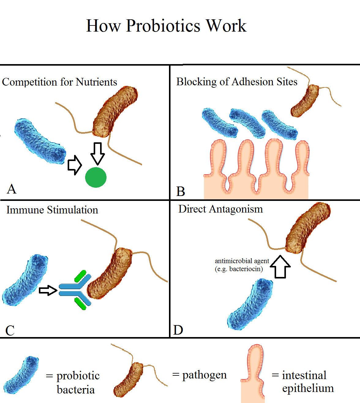 Four different ways in which probiotics defend against pathogens in the intestine. Probiotics compete against pathogens for the same essential nutrients, leaving less available for the pathogen to utilize (A). They bind to adhesion sites, preventing pathogen attachment by reducing the surface area available for pathogen colonization (B). Signaling of immune cells by probiotics results in the secretion of cytokines, targeting the pathogen for destruction (C). Finally, probiotics attack pathogenic organisms by releasing bacteriocins, killing them directly (D). Bermudez-Brito M, Plaza-Díaz J, Muñoz-Quezada S, Gómez-Llorente C, Gil A, Probiotic Mechanisms of Action. Ann Nutr Metab 2012;61:160-174.